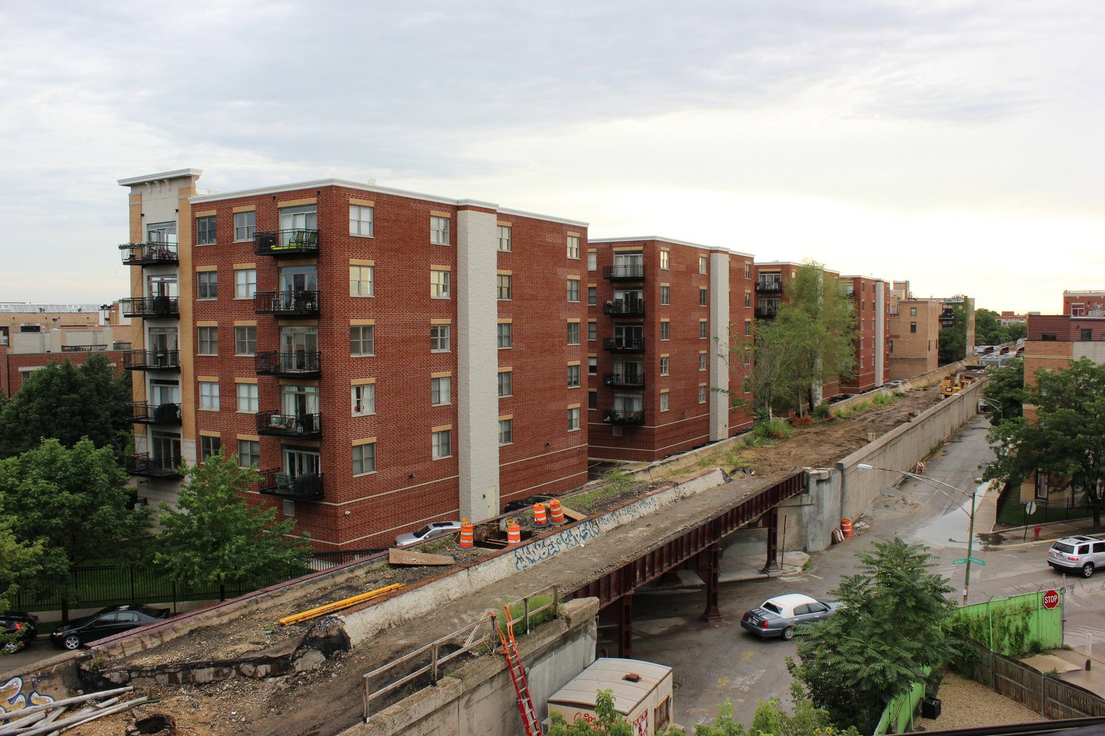 The Bloomingdale Trail is a 2.7 mile long walking and biking path, part of The 606 network of parks and access points. It stretches from the McCormick Tribune YMCA near Pulaski to Walsh Park at Ashland, through Logan Square, Humboldt Park, Wicker Park, and Bucktown. By anonymous.